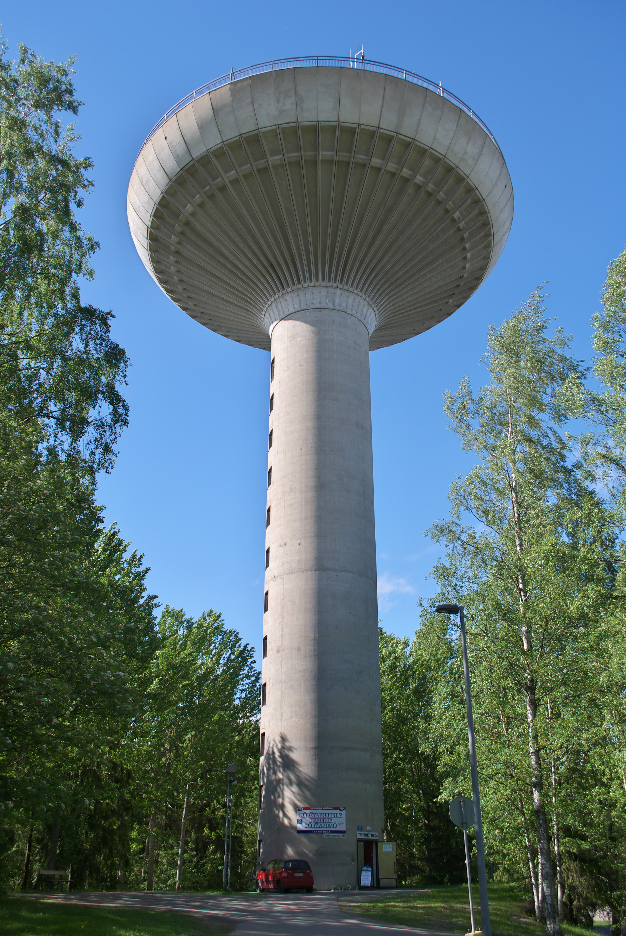 The water tower of Hervanta